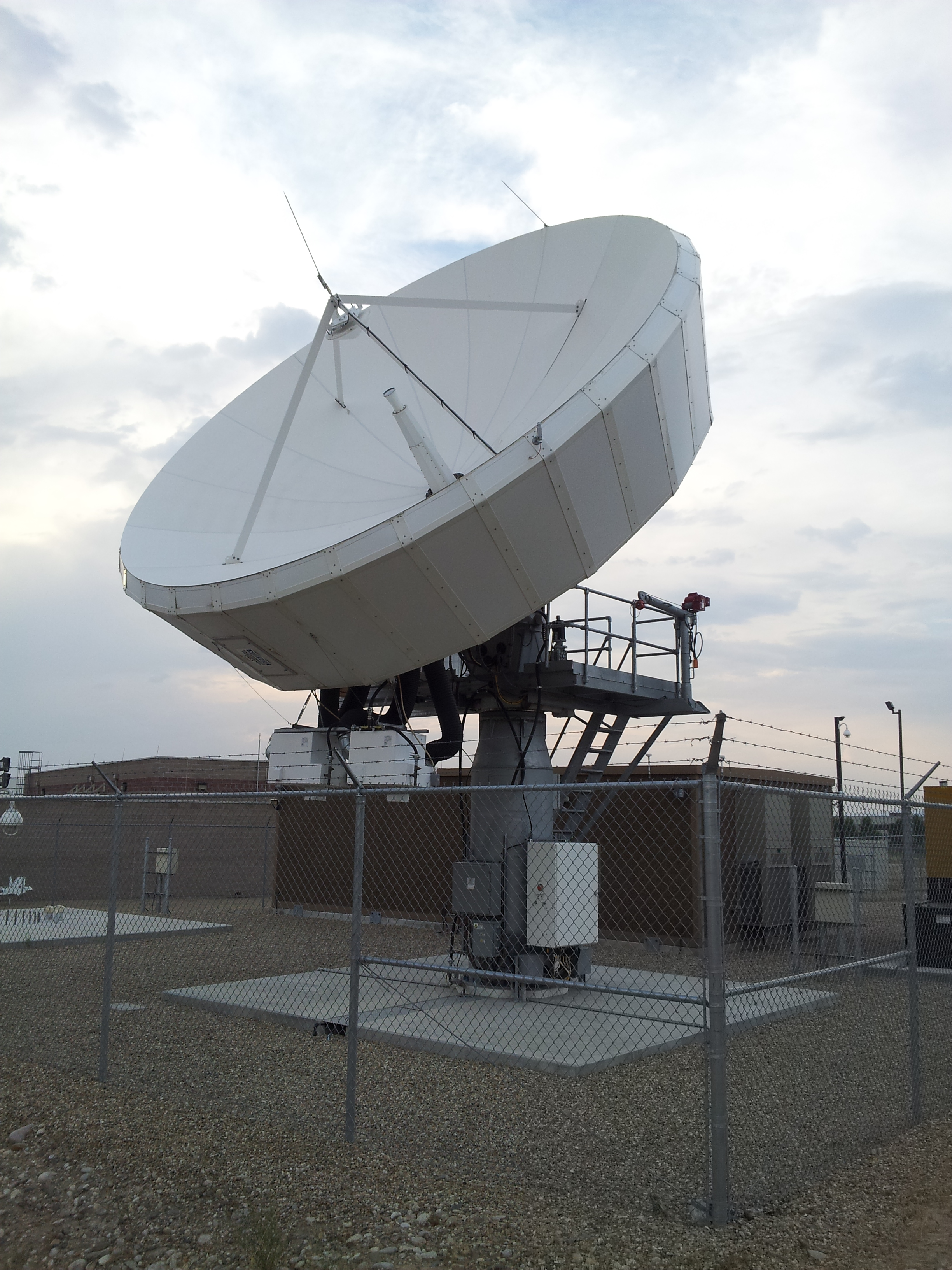 Level (3) Communications satellite dish at 443 W. McGregor Dr., Boise, ID 83705